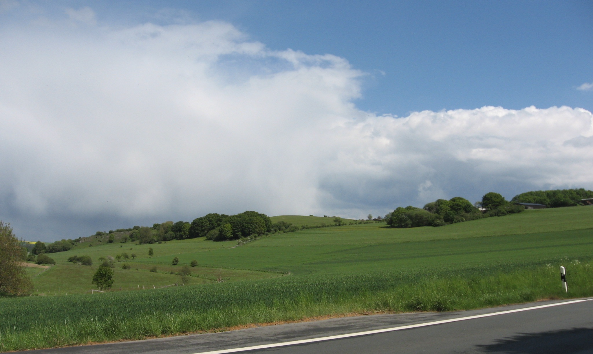 Landschaftsschutzgebiet Grünlandverbund Aa mit Naturschutzgebiet Blumenstein auf Bergkuppe.